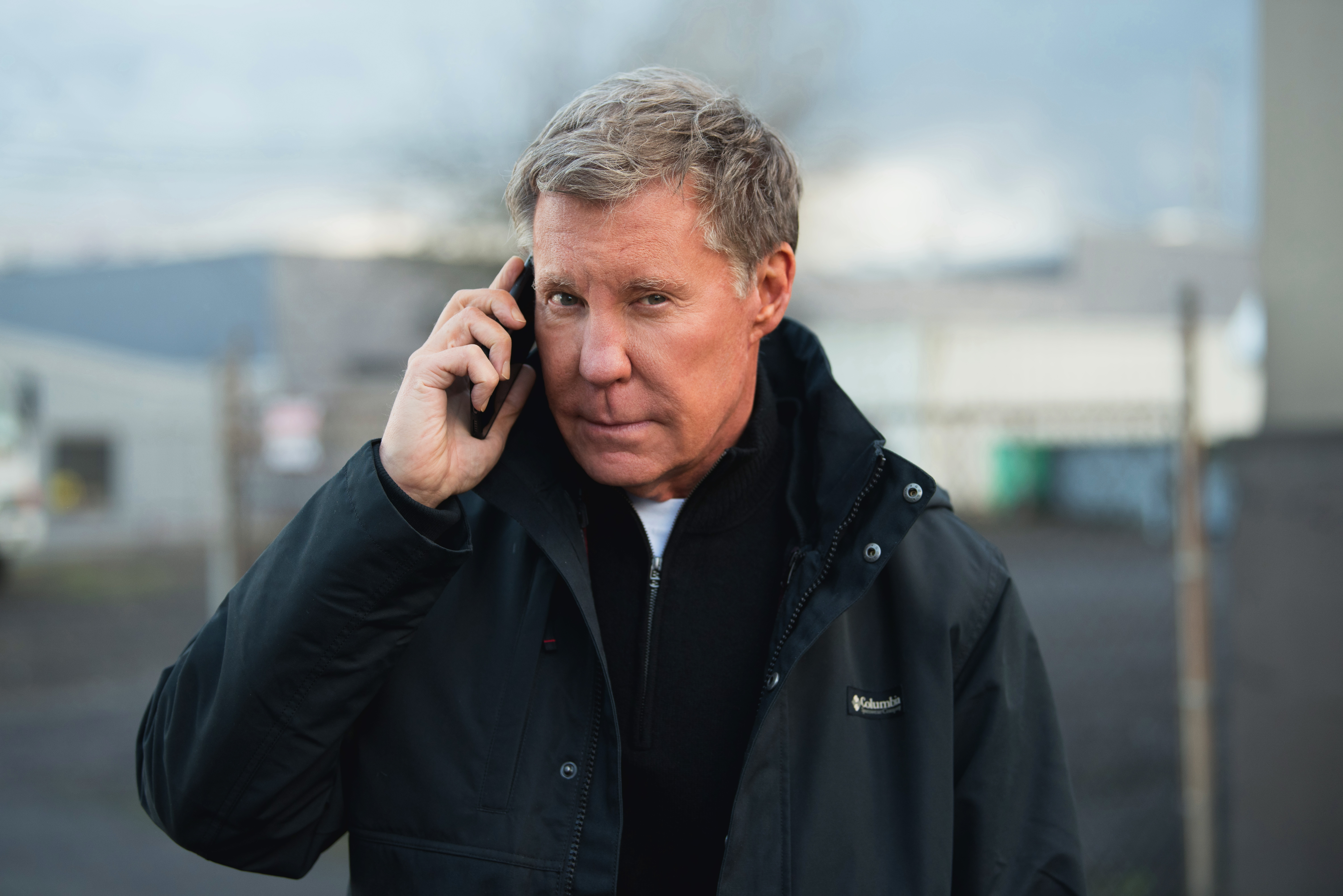 Shocknek on production location